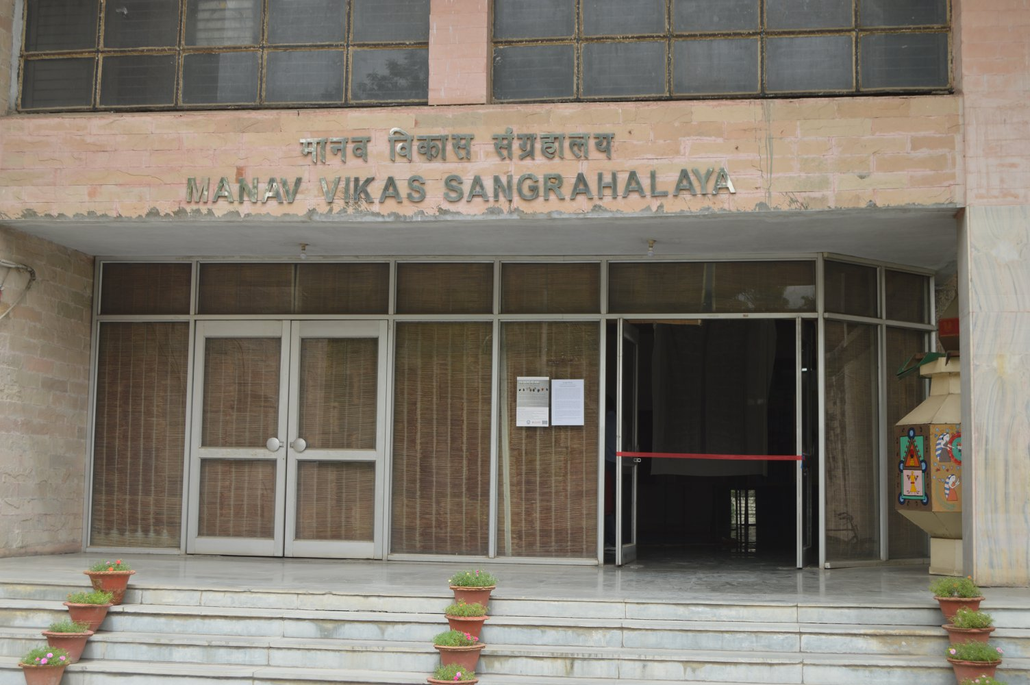 The Museum permanently housed at GBPSSI, Allahabad. Features exhibits in Cultural Anthropology. Espeially unique is the permanent gallery dedicated to tracking and documenting the migrtion of the Bhojpuri people and culture from North India to Suriname and the Netherlands.